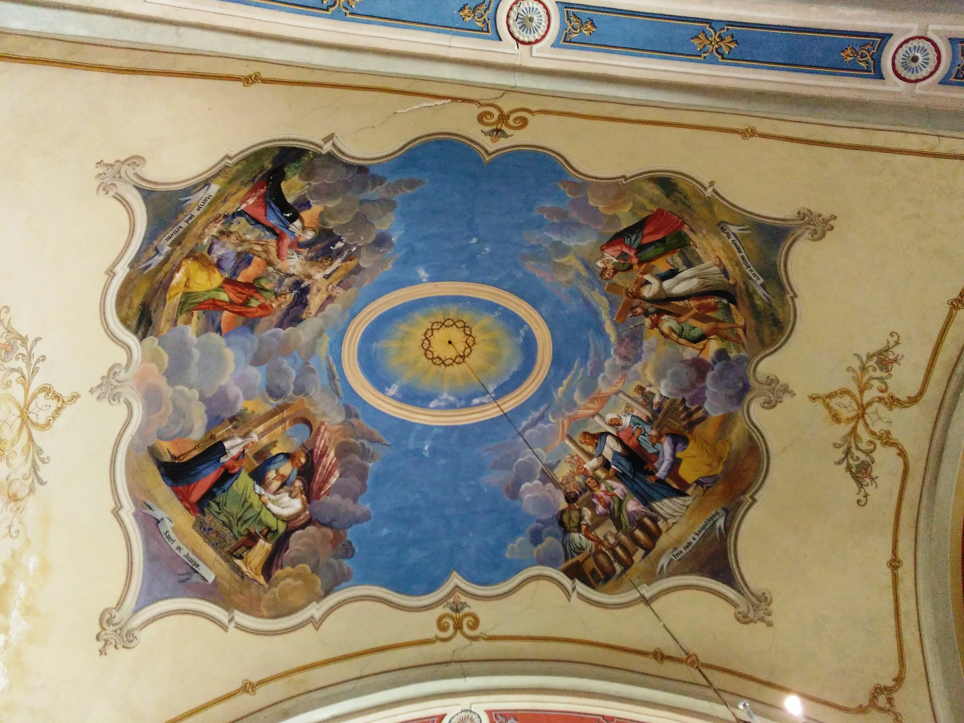 Fresco in the church in Nova Raca, Croatia. This is a a photo of a cultural heritage in Croatia with ID:Z-2446